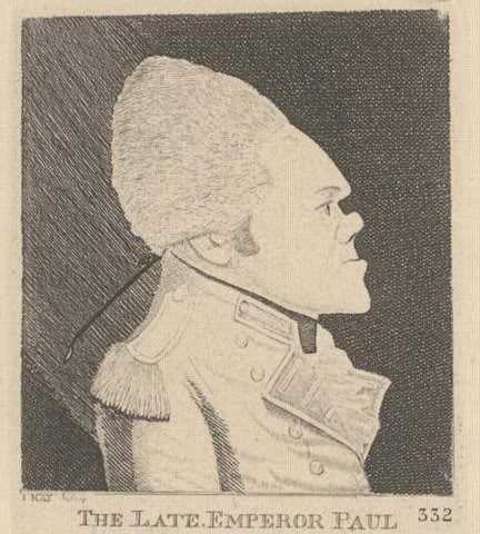 Pavel I English caricature